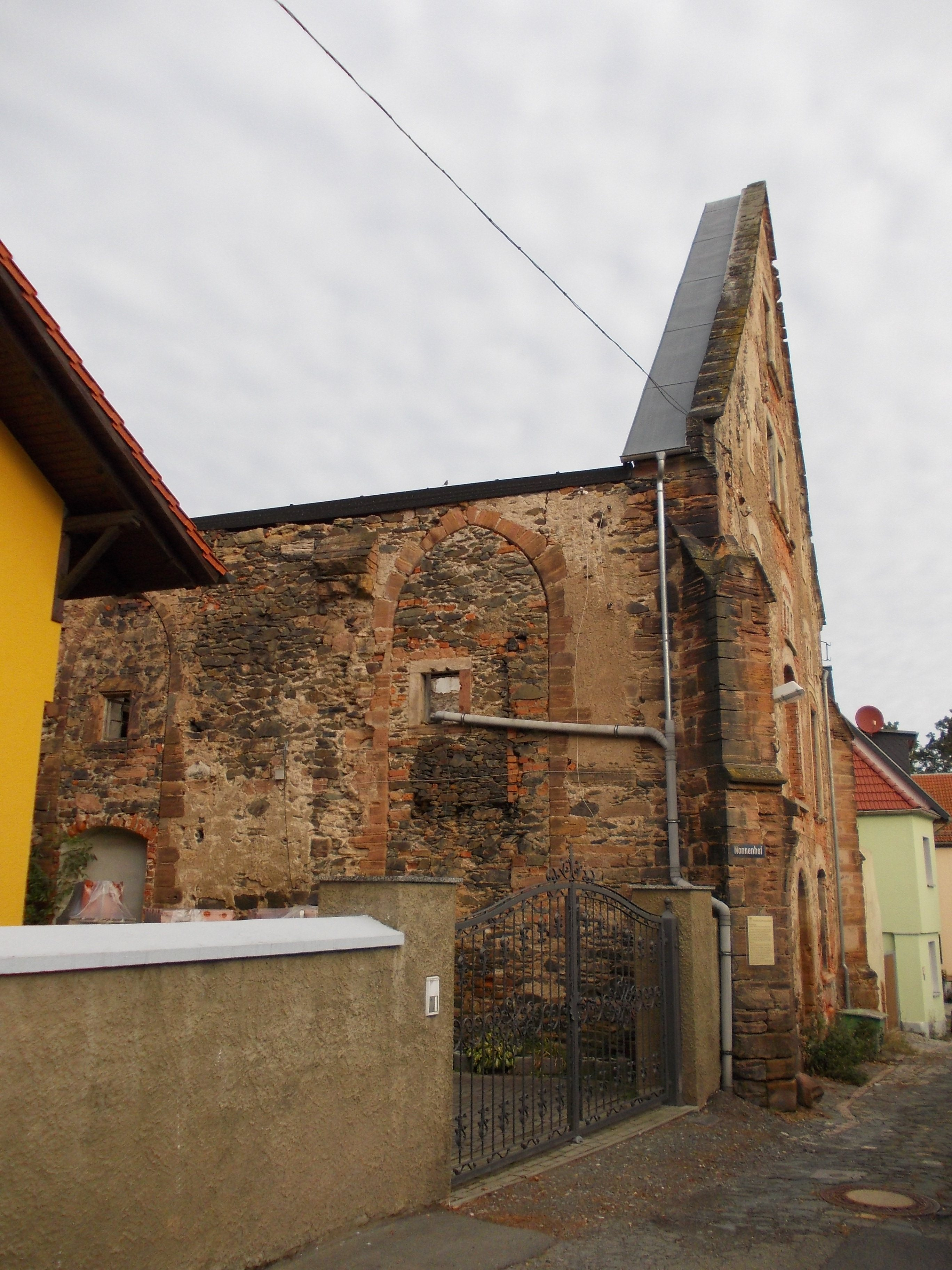 Grain house, former church of the Dominican nuns, in Weida (Greiz district, Thuringia)